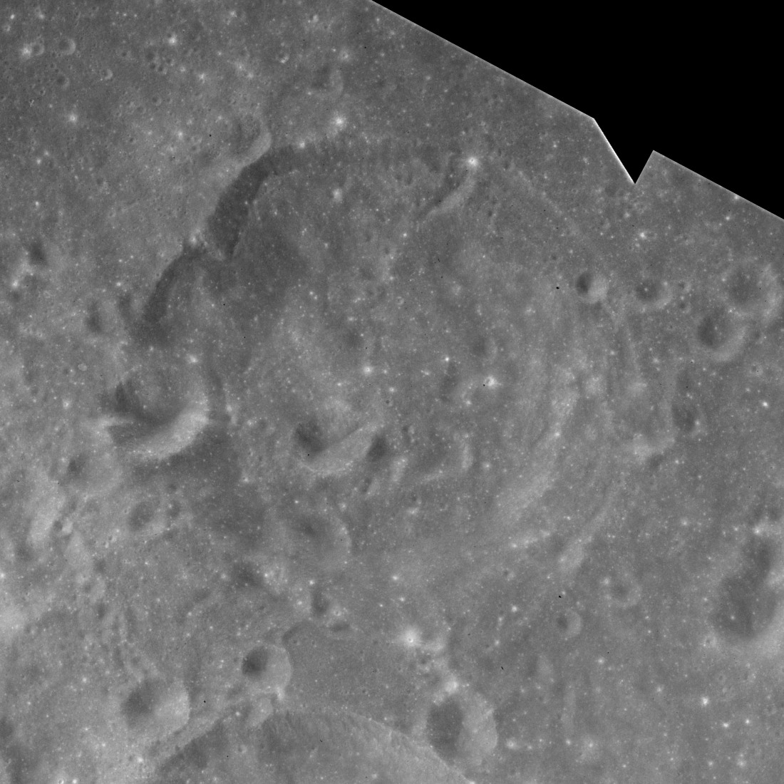 Naonobu crater, Mare Fecunditatis, on the moon. Rotated so that north is at top.